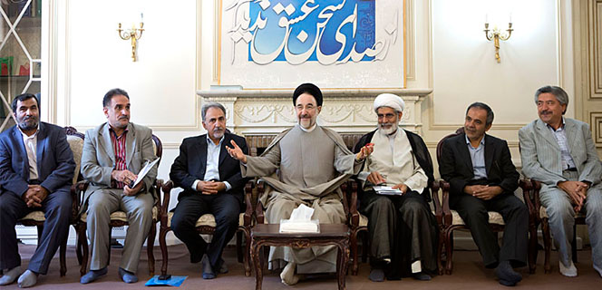 عباس میرزا ابوطالبی در دیدار با سید محمد خاتمی